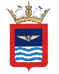 Aviacion Naval del Uruguay